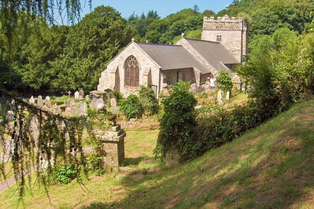 St Brynach's Church at Nanhyfer A 5th century church.